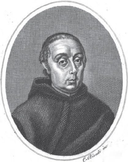 Giovanni Evangelista Di Blasi, Sicilian historian